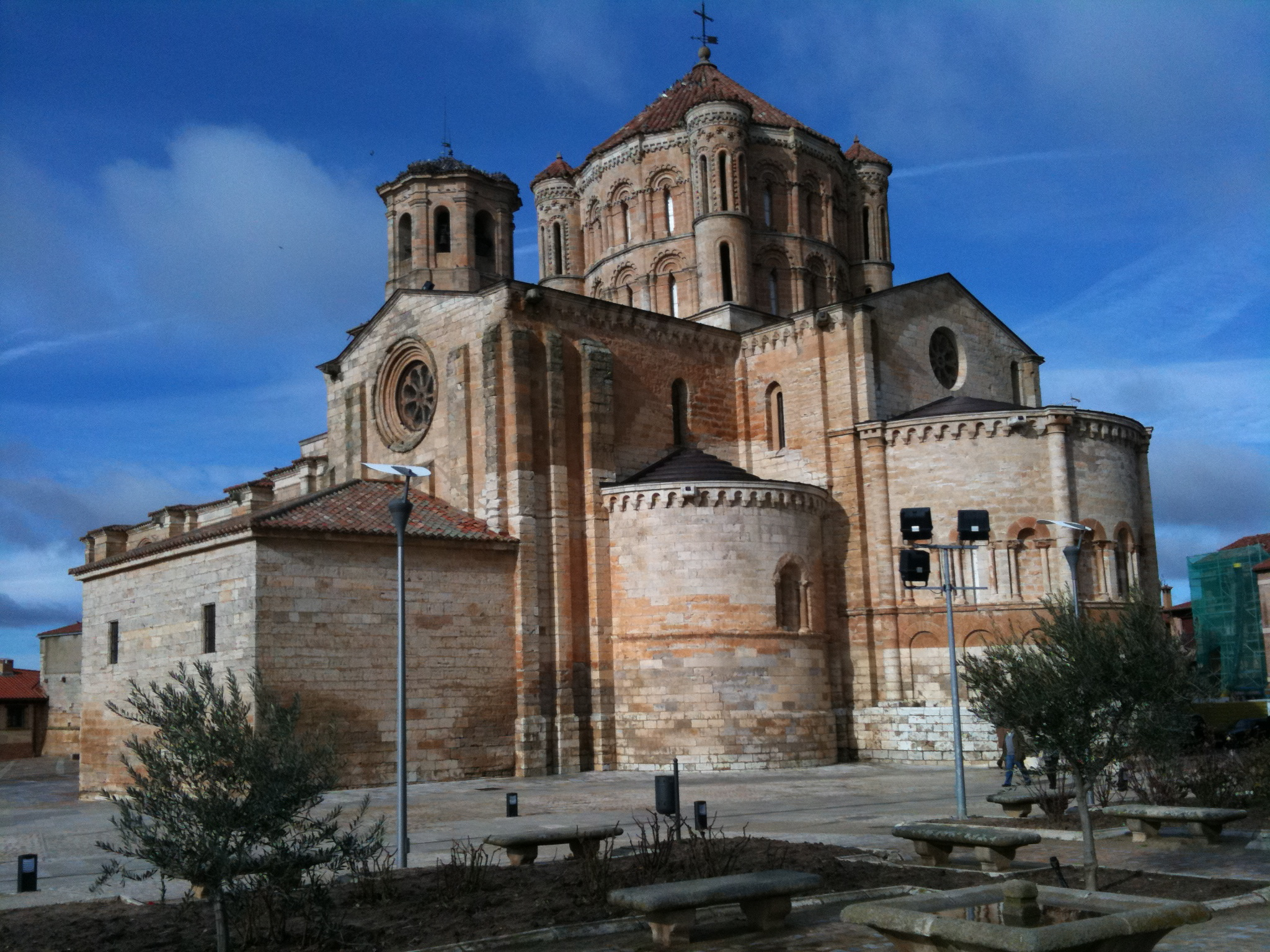 TORO. COLEGIATA DE SANTA MARIA LA MAYOR.